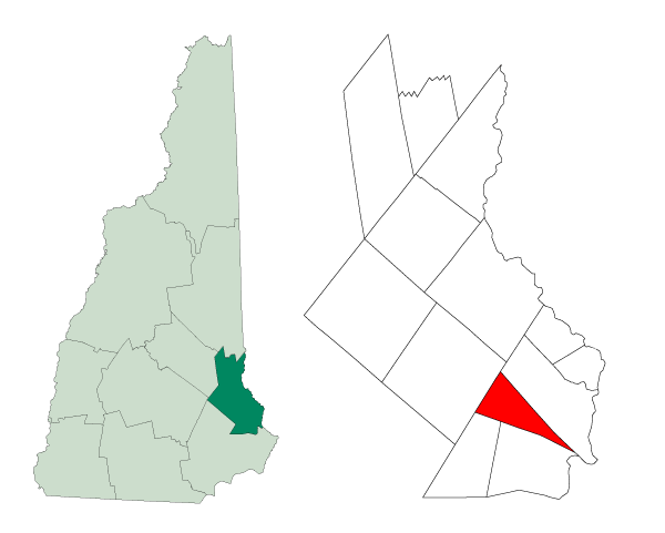 Created from Boundary/Border Outline Files of the Libre Map Project which held a BY-SA creative commons license. Data origionally from 2000 US Census boundary data.